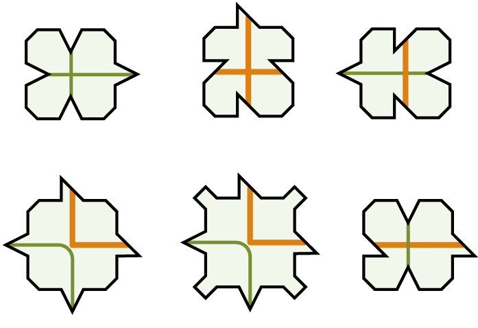 The Robinson Tiles